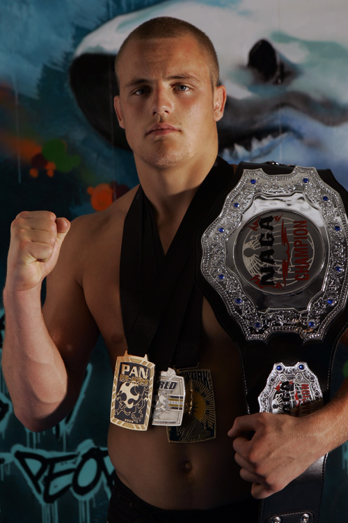 Gunnar Nelson (born July 28, 1988), an Icelandic professional mixed martial artist and Brazilian Jiu-Jitsu practitioner Gunnar_Nelson_(fighter)